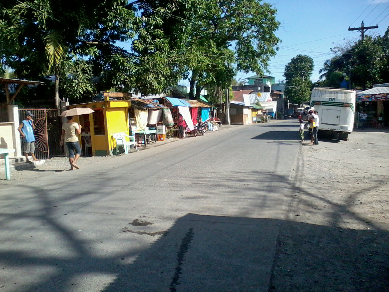 A road in Sablayan, Occidental Mindoro